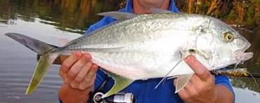 Caught in Weipa, Qld